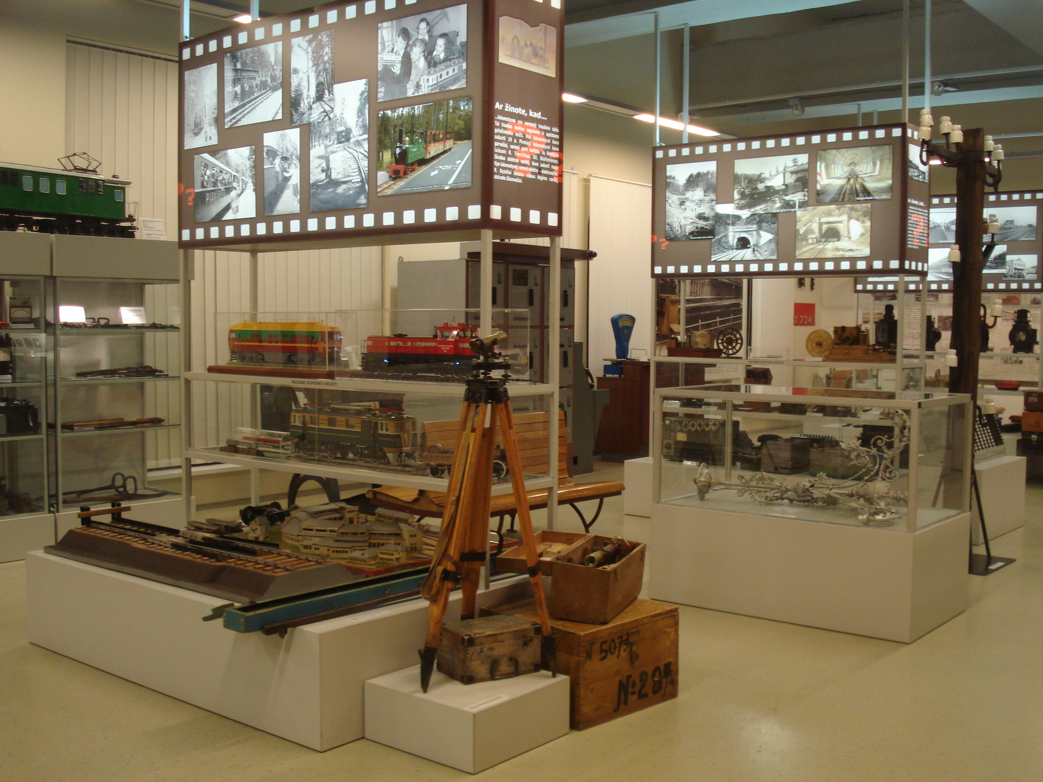 Lithuanian Railway Museum. Vilnius